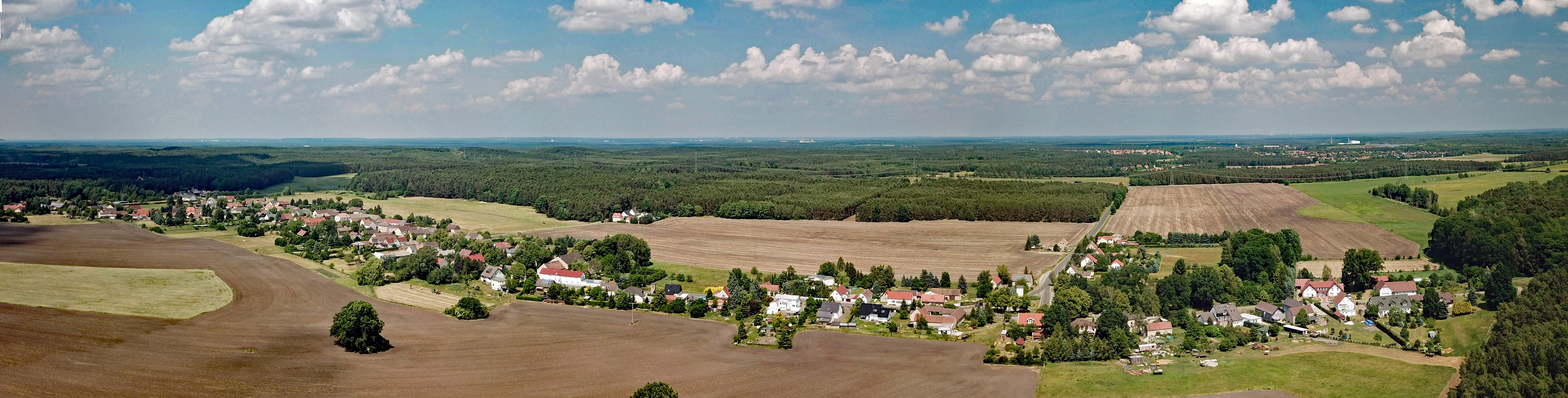 Leippe (Lauta, Saxony, Germany)